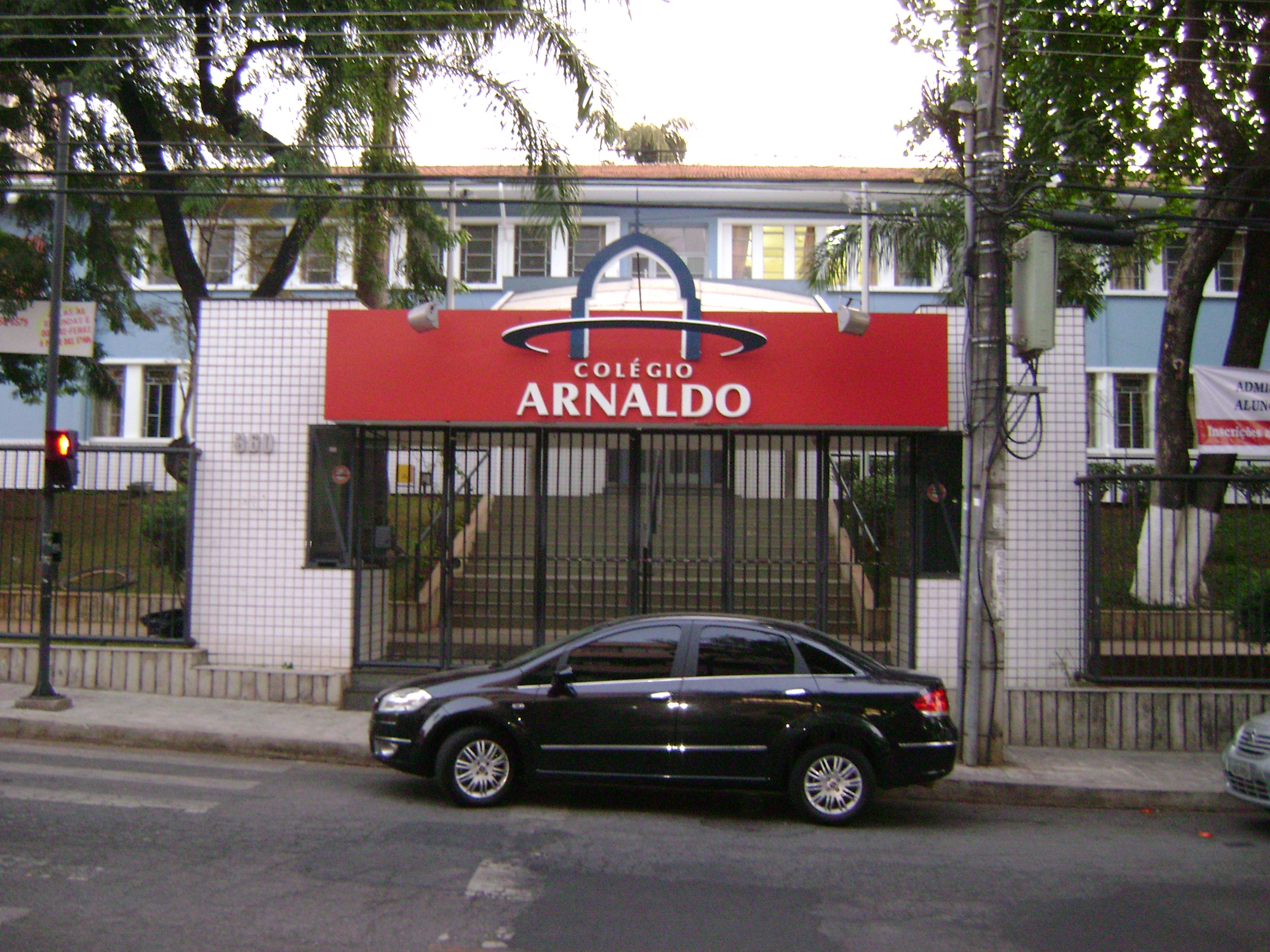 Colégio Arnaldo campus Anchieta, in Belo Horizonte, Brazil.